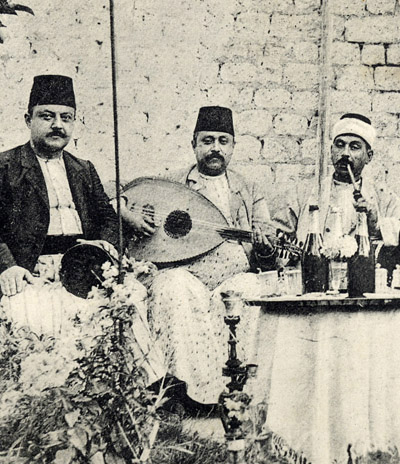 Post card of a traditional Chamber music from Aleppo, at the turn of the 20th. century, complete with Champagne bottles for the pleasure of the highly esteemed musicians. " The chamber music consists of voices accompanied with a dulcimer [ Kanoon ], a guitar [Tanboor], the Arab fiddle [Kamangi], two small drums [ Nakara], the dervish flute [ Nai], and the diff. These compose no disagreeable concert, when once the ear has been some what accustomed to the music; the instruments generally are well in tune, and the performers , keep excellent time". DR. ALEX RUSSELL,M.D. THE NATURAL HISTORY OF ALEPPO 1794